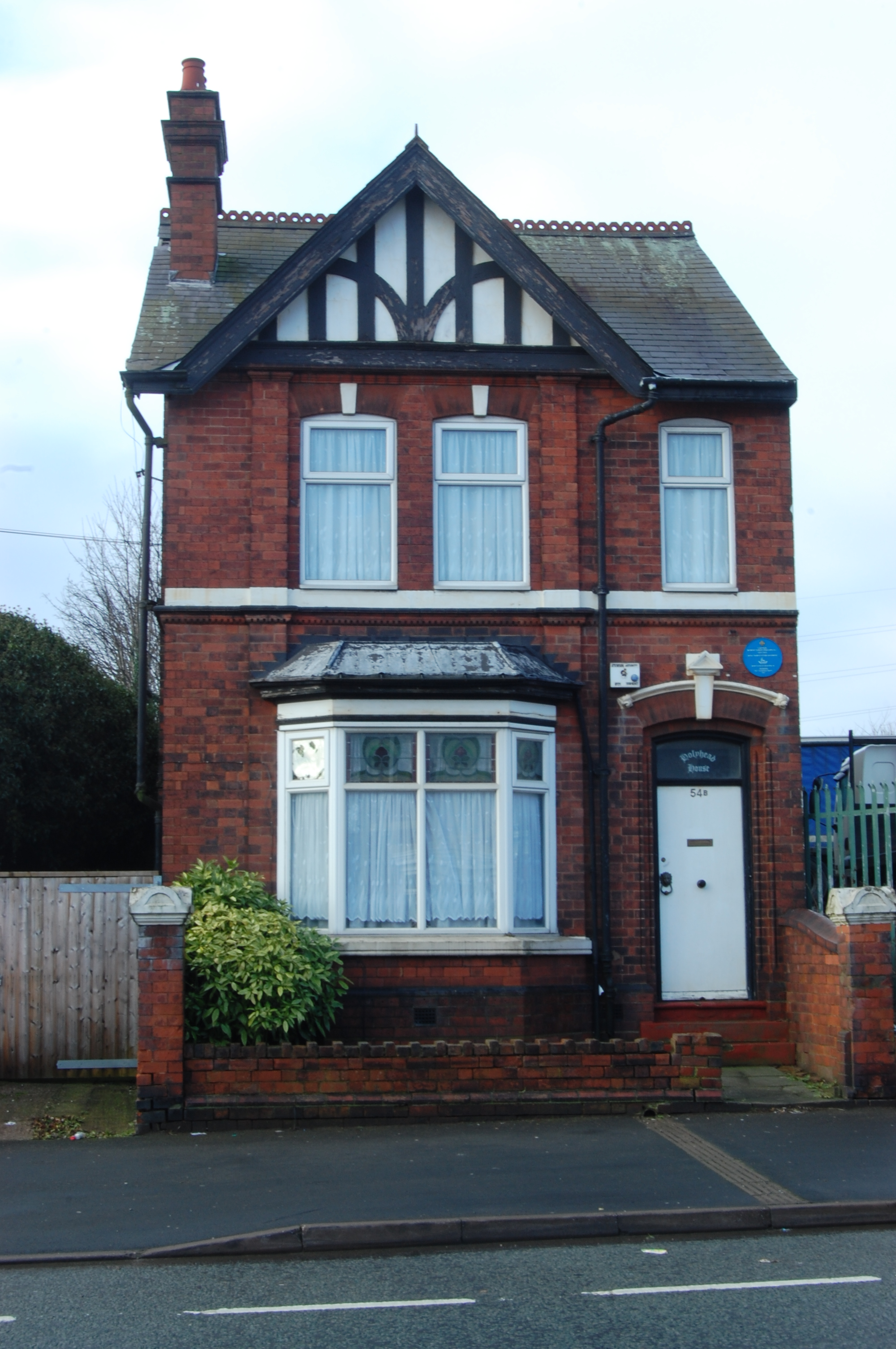 House in West Bromwich, England, with blue plaque commemorating Robert Edwin Phillips, VC.